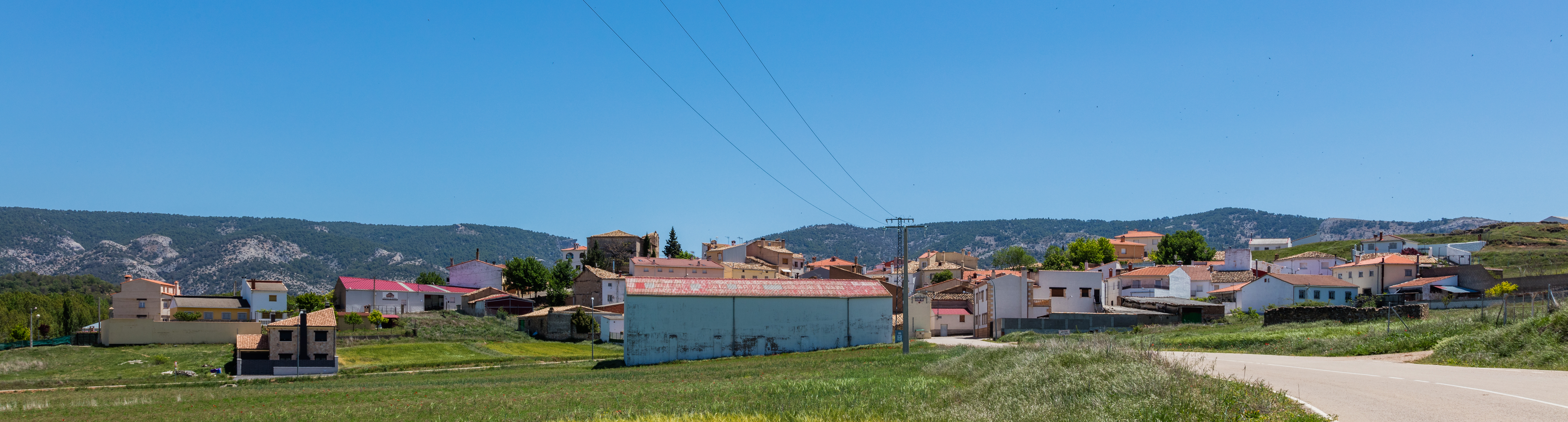 Arcos de la Sierra, Cuenca, Spain